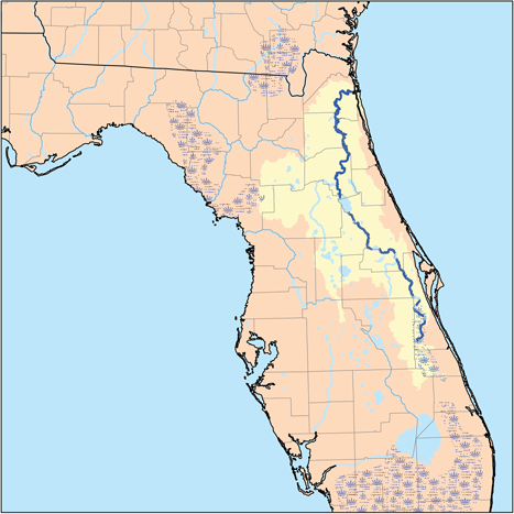 This is a map of the St. Johns River watershed. I, Karl Musser, created it based on USGS data.